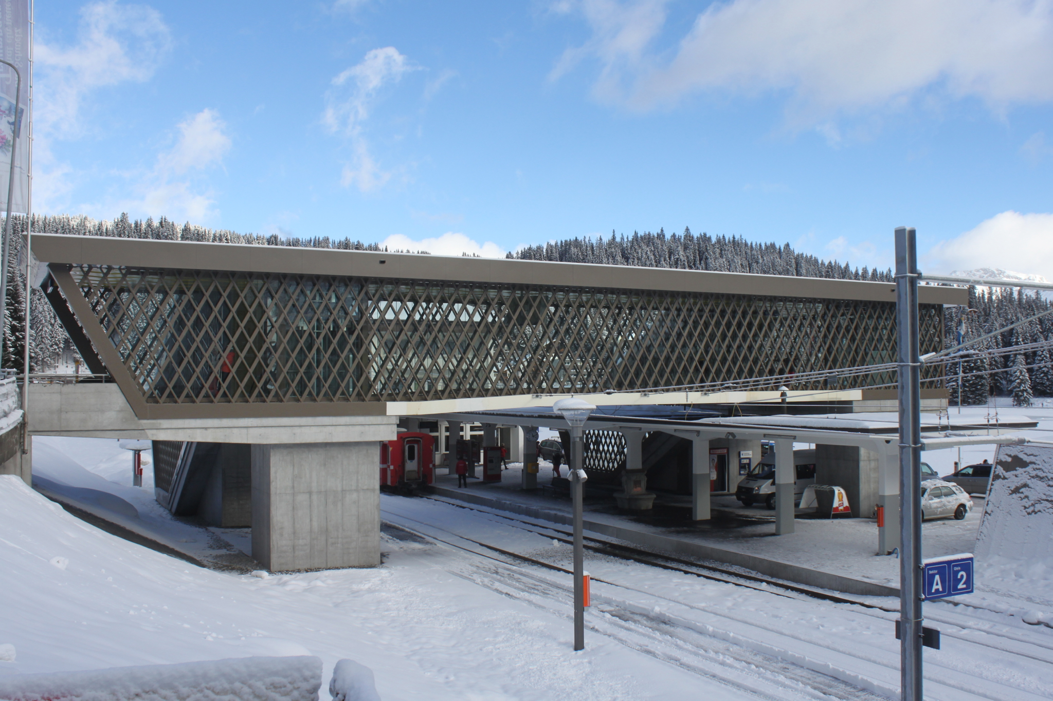 Arosa train station.